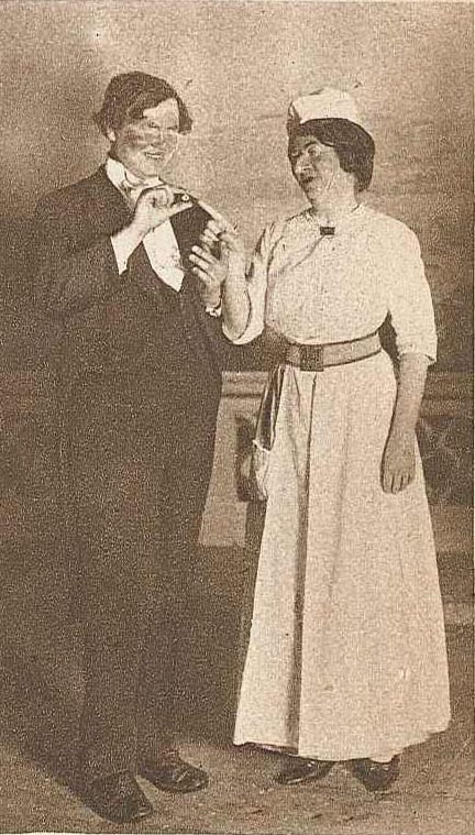 Swedish actors Eric "Kirre" Lindholm (1888-1929) and Stassa Wahlgren (1858-1929) in the 1916 new years revue Stockholmsjobb at Södra Teatern in Stockholm.